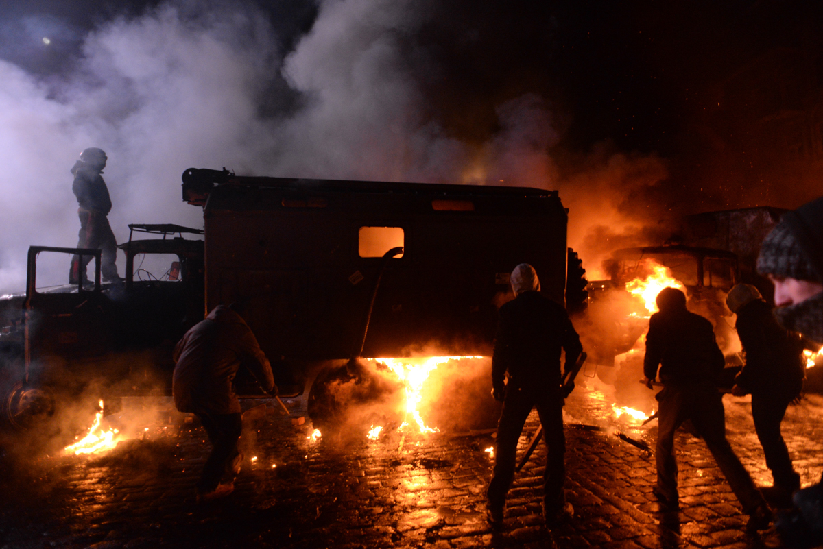 Dynamivska str barricades on fire. Euromaidan Protests. Events of Jan 19, 2014-9